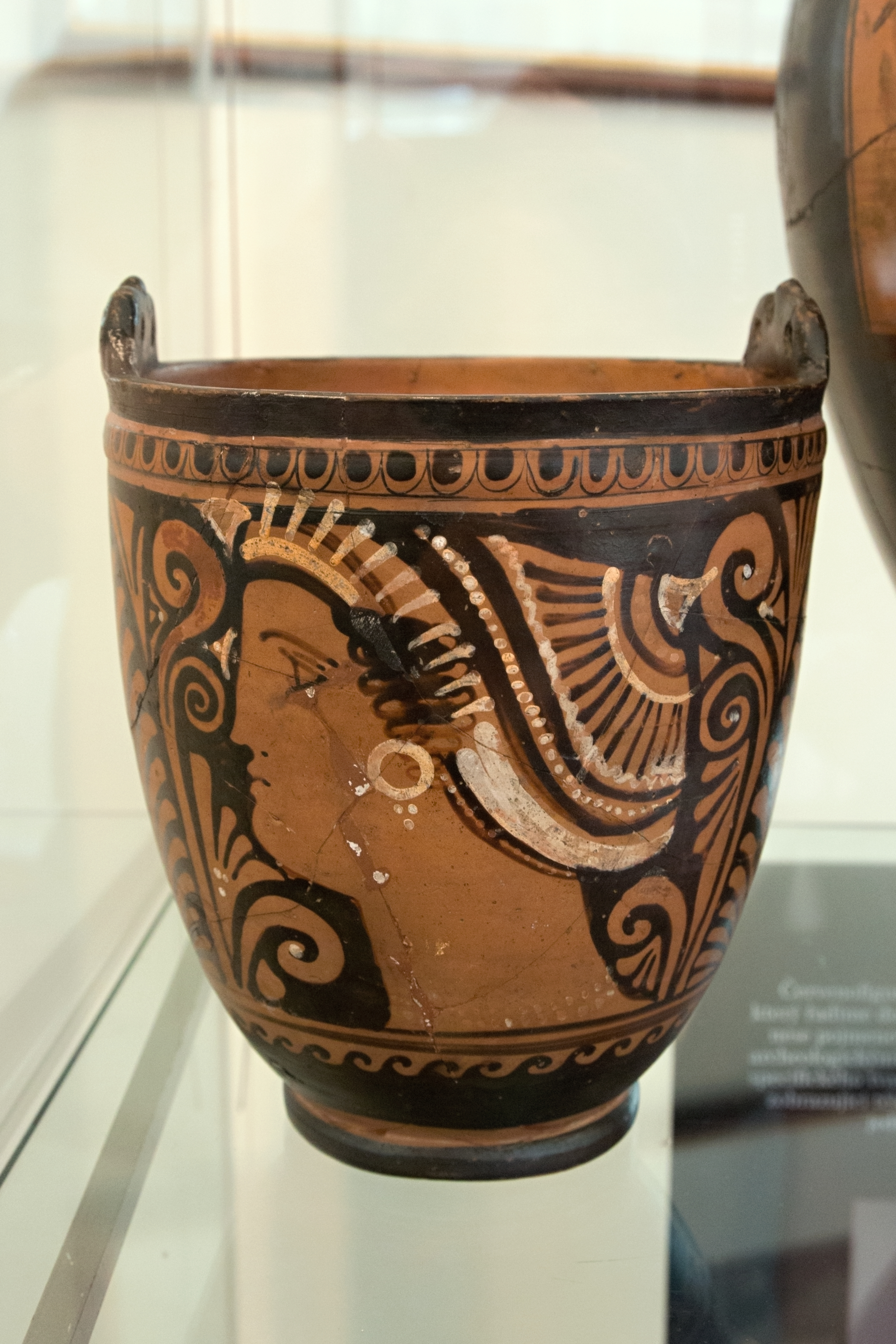 Apulian red-figure situla. Taranto Group 9243.2, circa 350 BC. From collections of the Museum of Decorative Arts in Prague.